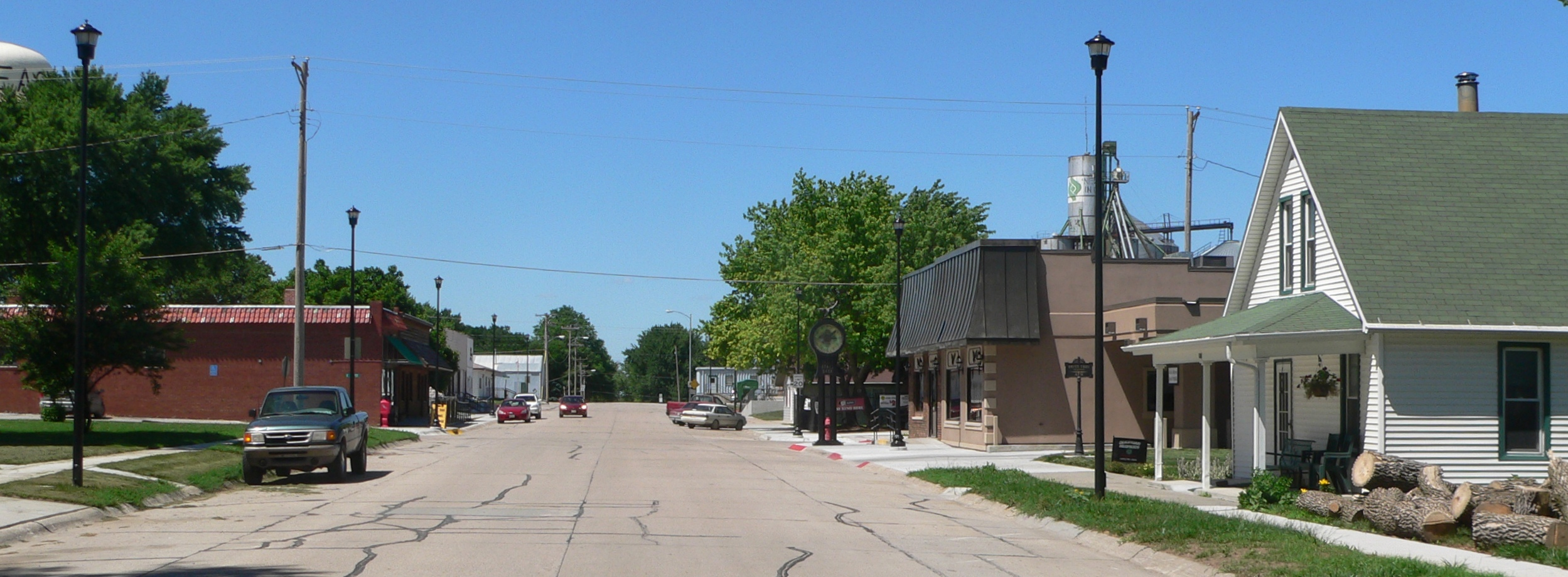 Downtown Eagle, Nebraska: Fourth Street, looking north from about F Street.